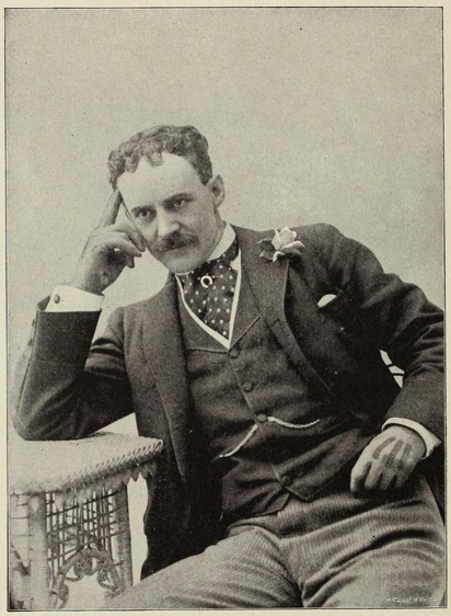 Photograph of Harry Lacy, American stage actor.